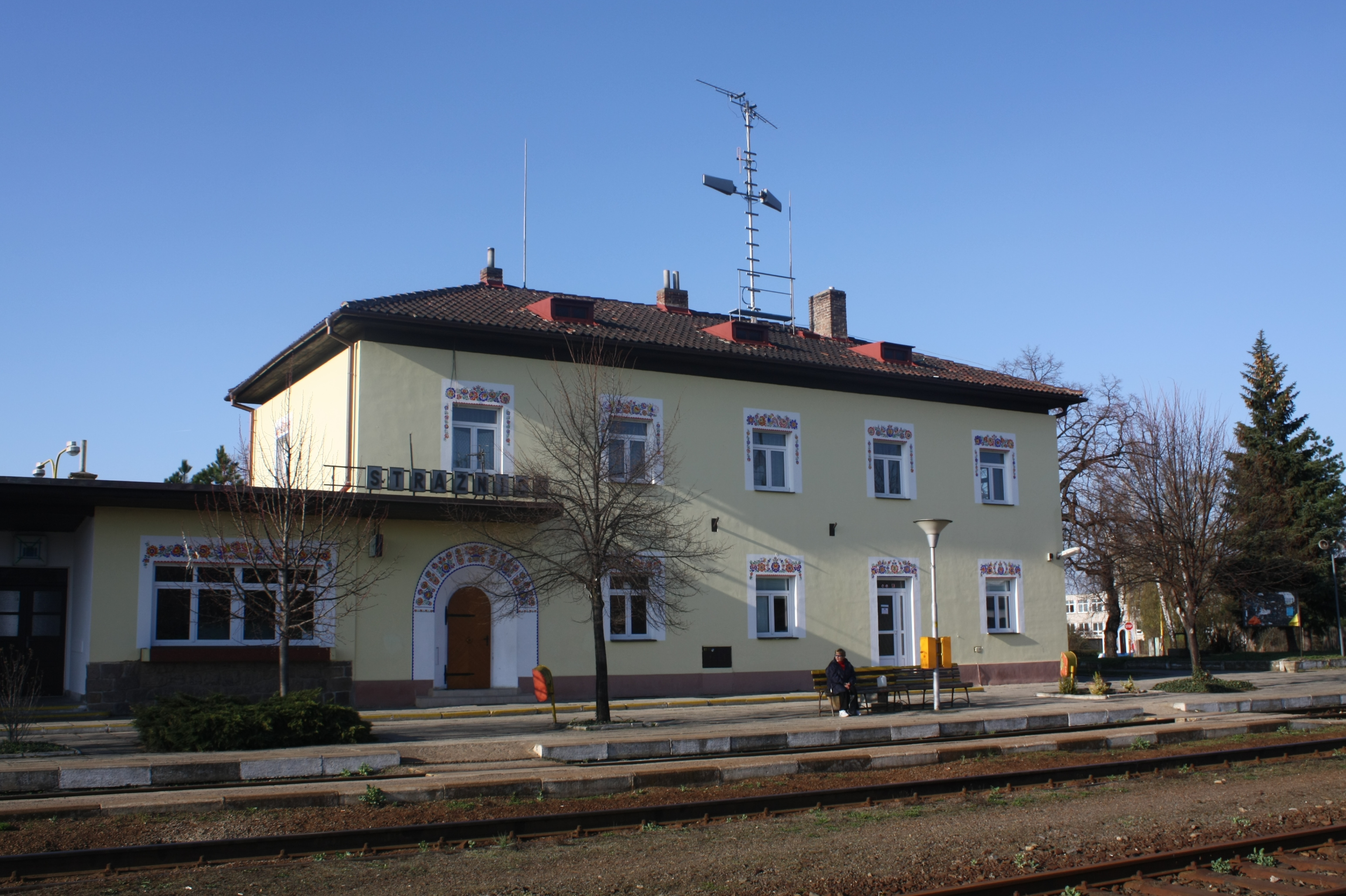 Strážnice (Hodonín district, Czech Republic) - railway station